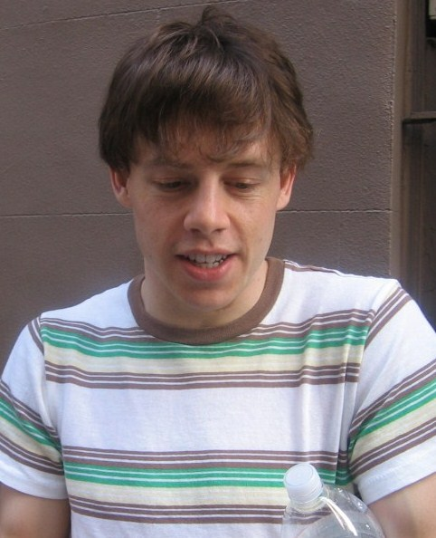 Blake Bashoff at the stage door of Spring Awakening following a performance as Moritz Stiefel.